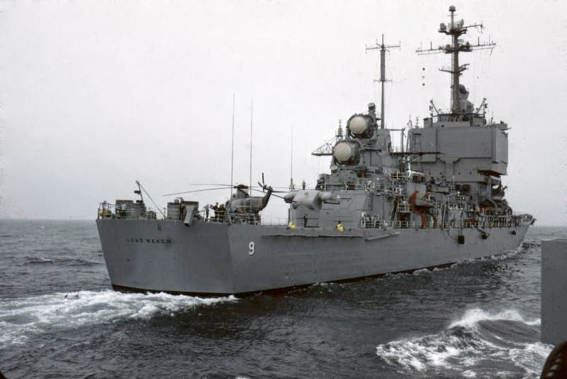 The U.S. nuclear-powered guided missile cruiser USS Long Beach (CGN-9) in the Gulf of Tonking, photographed between 24 March and 5 April 1967. The Long Beach was assigned to the PIRAZ (Positive Identification Radar Advisory Zone) station, controlling the flights over North Vietnam. A camouflaged SH-3A of HH-3A Sea King helicopter for combat search and rescue duties (nicknamed "Big Mother") is visible behind the aft Talos-launcher.